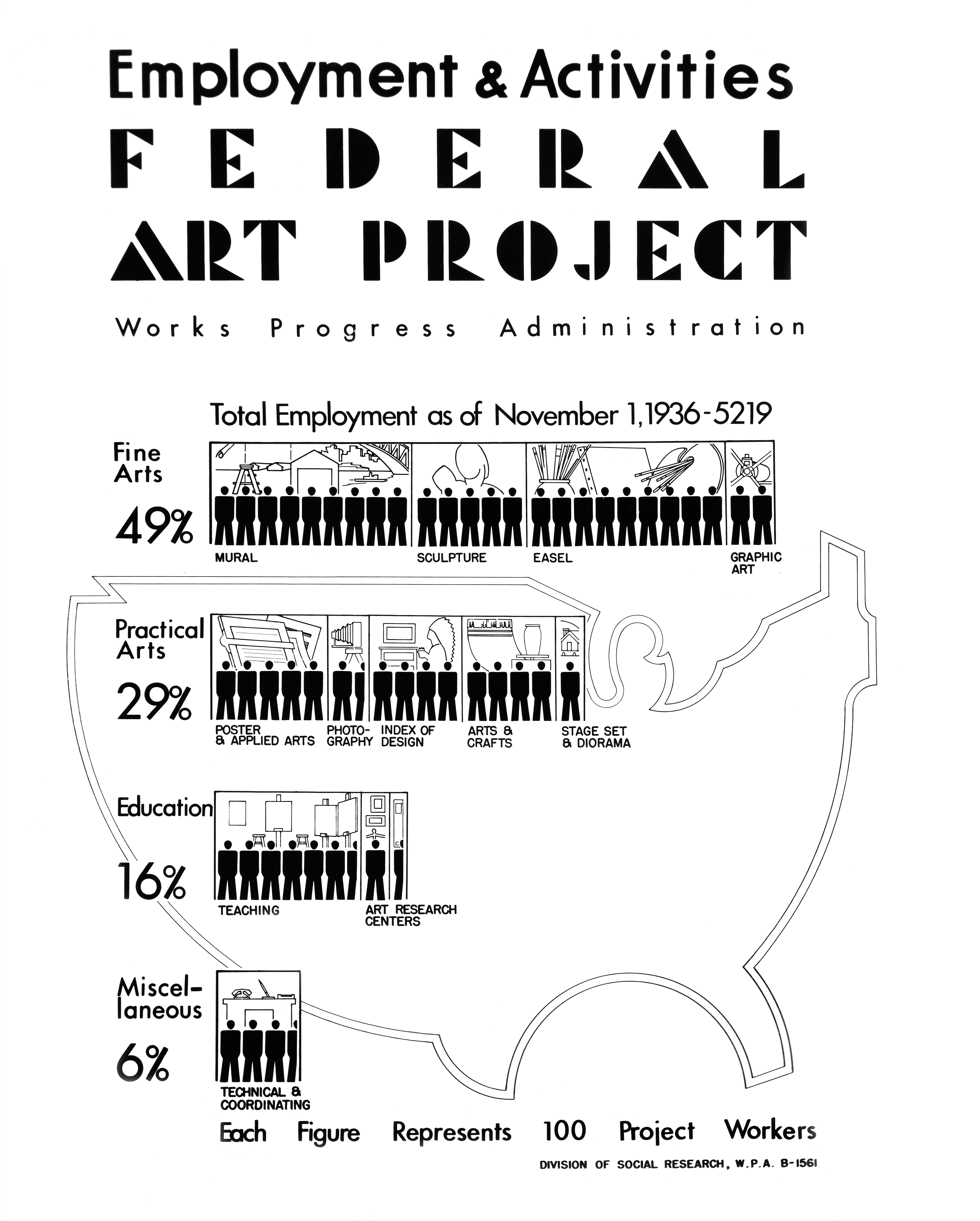 Employment and Activities poster for the Federal Art Project, presenting a breakdown of total employment based on statistics available November 1, 1936